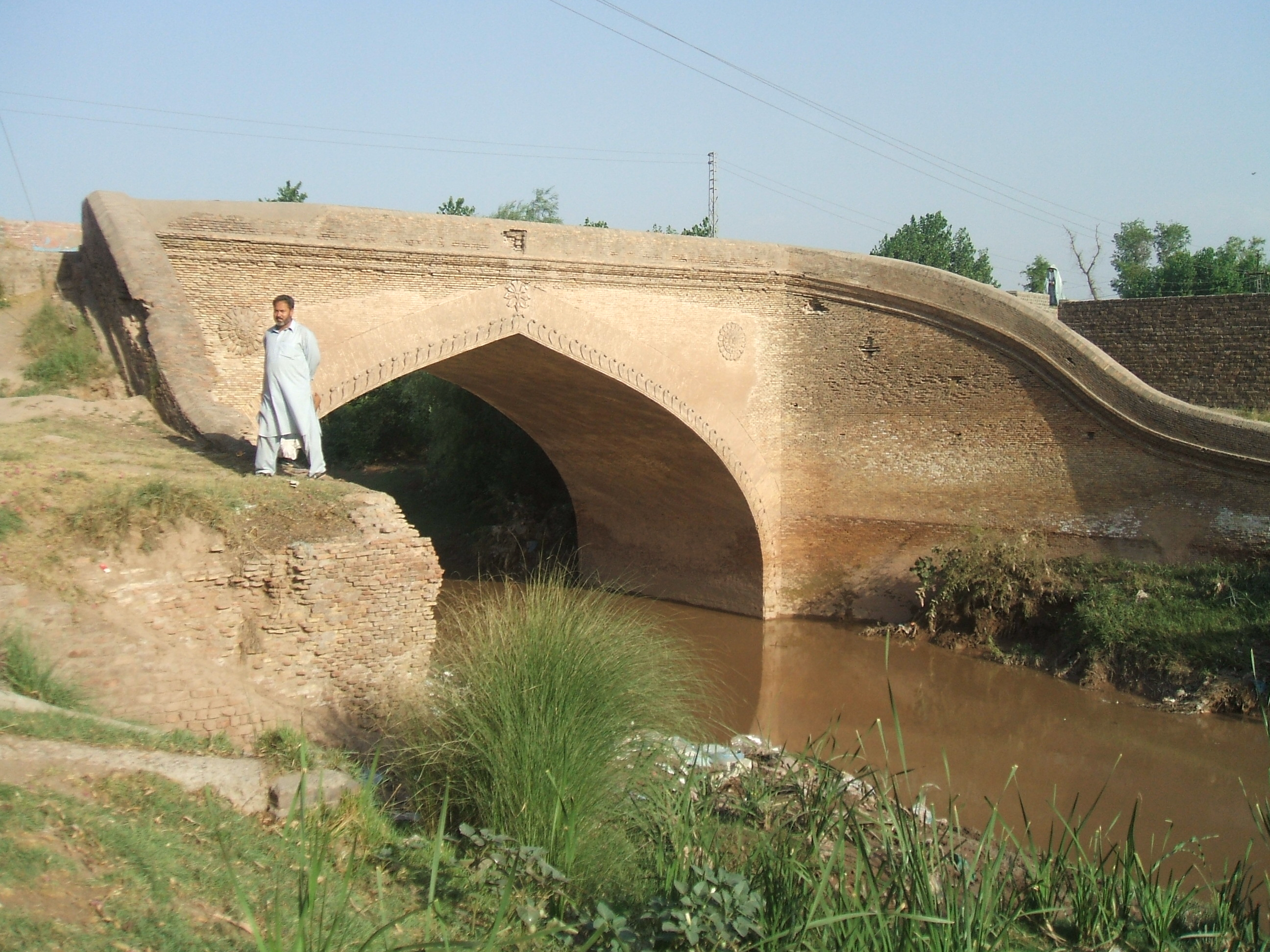 Bridge in Peshawar at Inqilab Road.